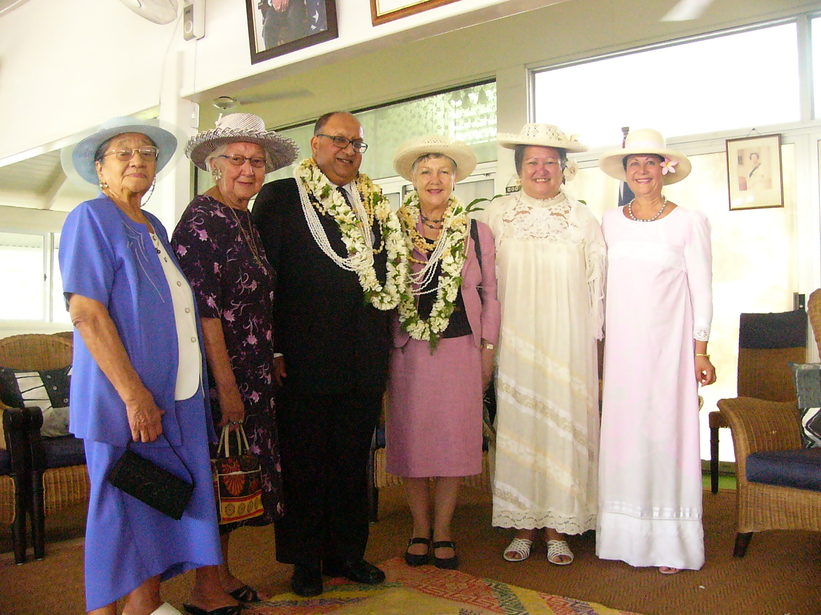 The Governor-General of New Zealand, the Hon Anand Satyanand, and Mrs Susan Satyanand made their first formal visit to the Cook Islands in August 2007. The Governor-General and Mrs Satyanand are pictured with members of the House of Ariki and the Koutu Nui after the formal welcome by the Queen's Representative on 23 August 2007.